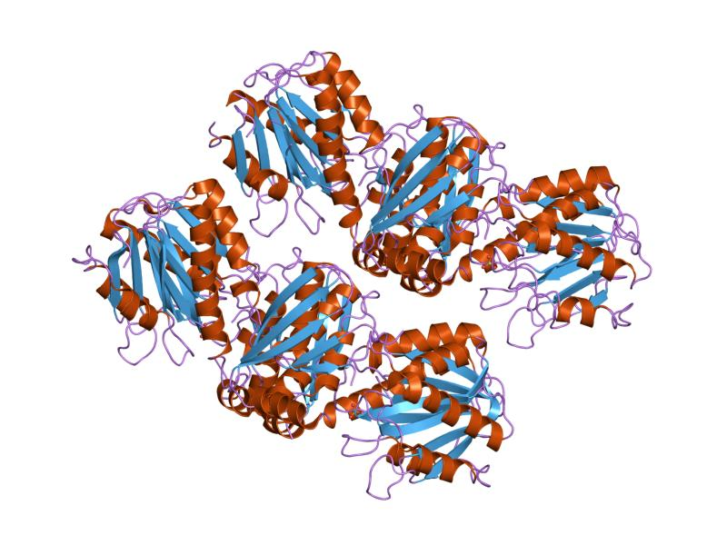 Cartoon representation of the molecular structure of protein registered with 1vz7 code.